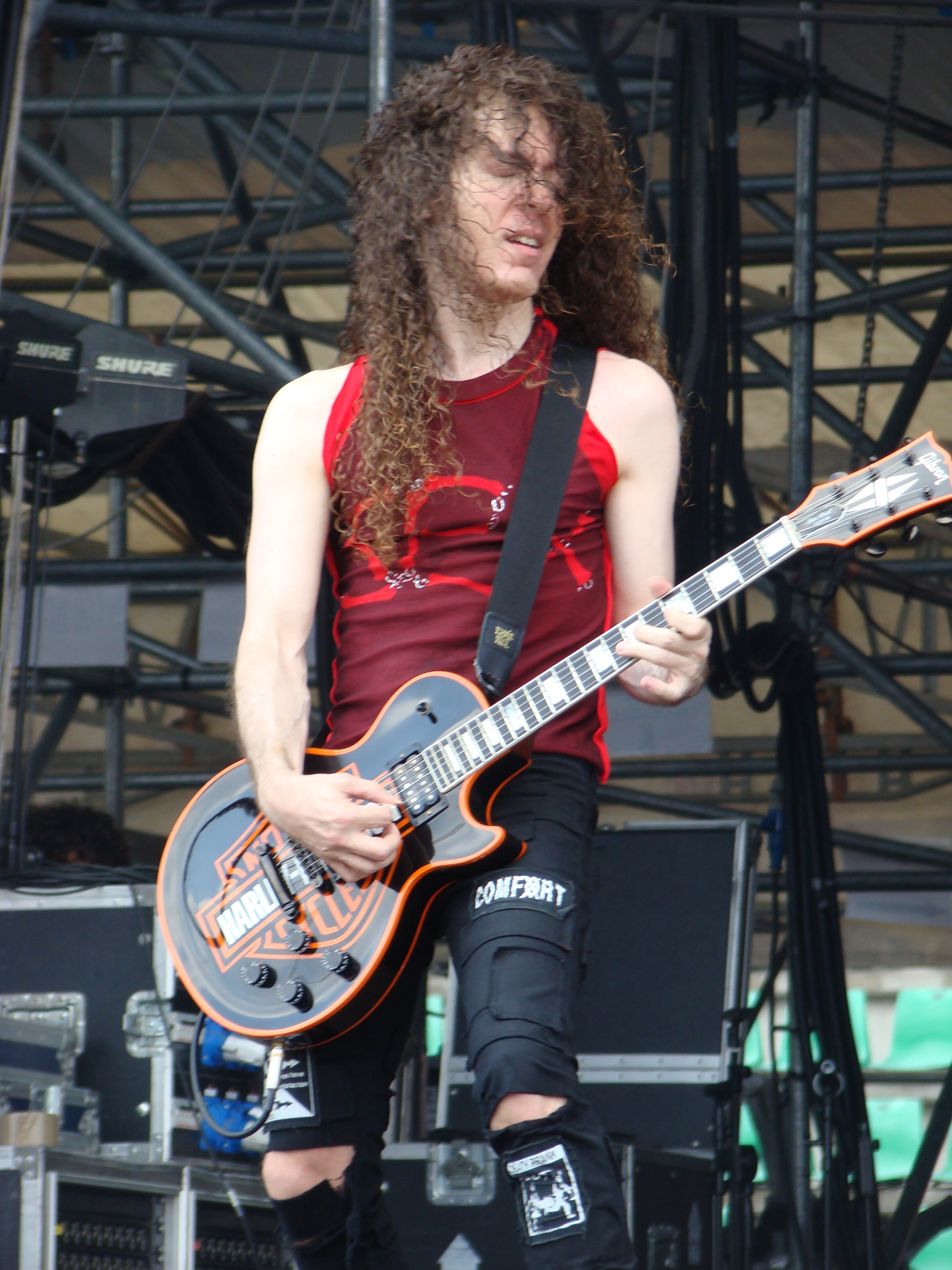 Gods of Metal 2009.